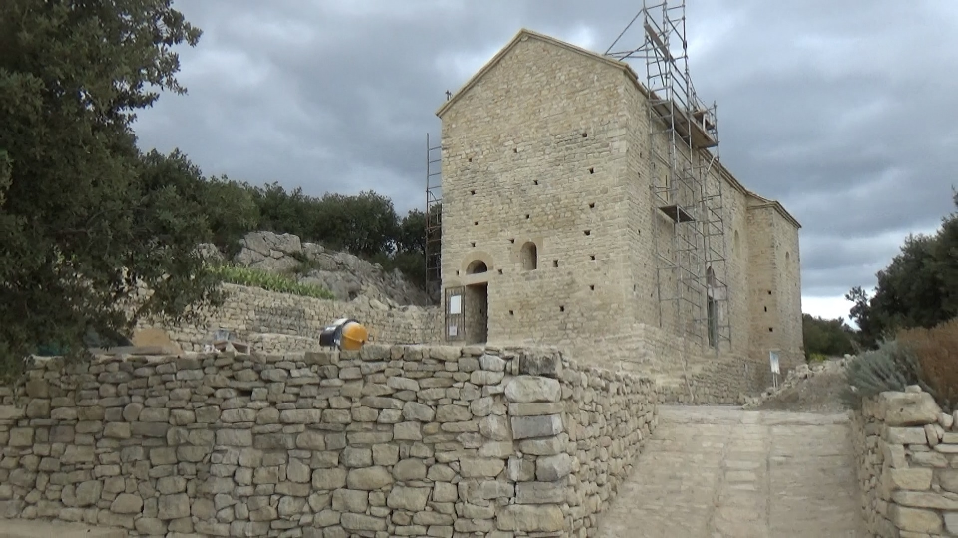 In the course of 8 years the volunteers saved this chapel, whose origins date back to the 6th century